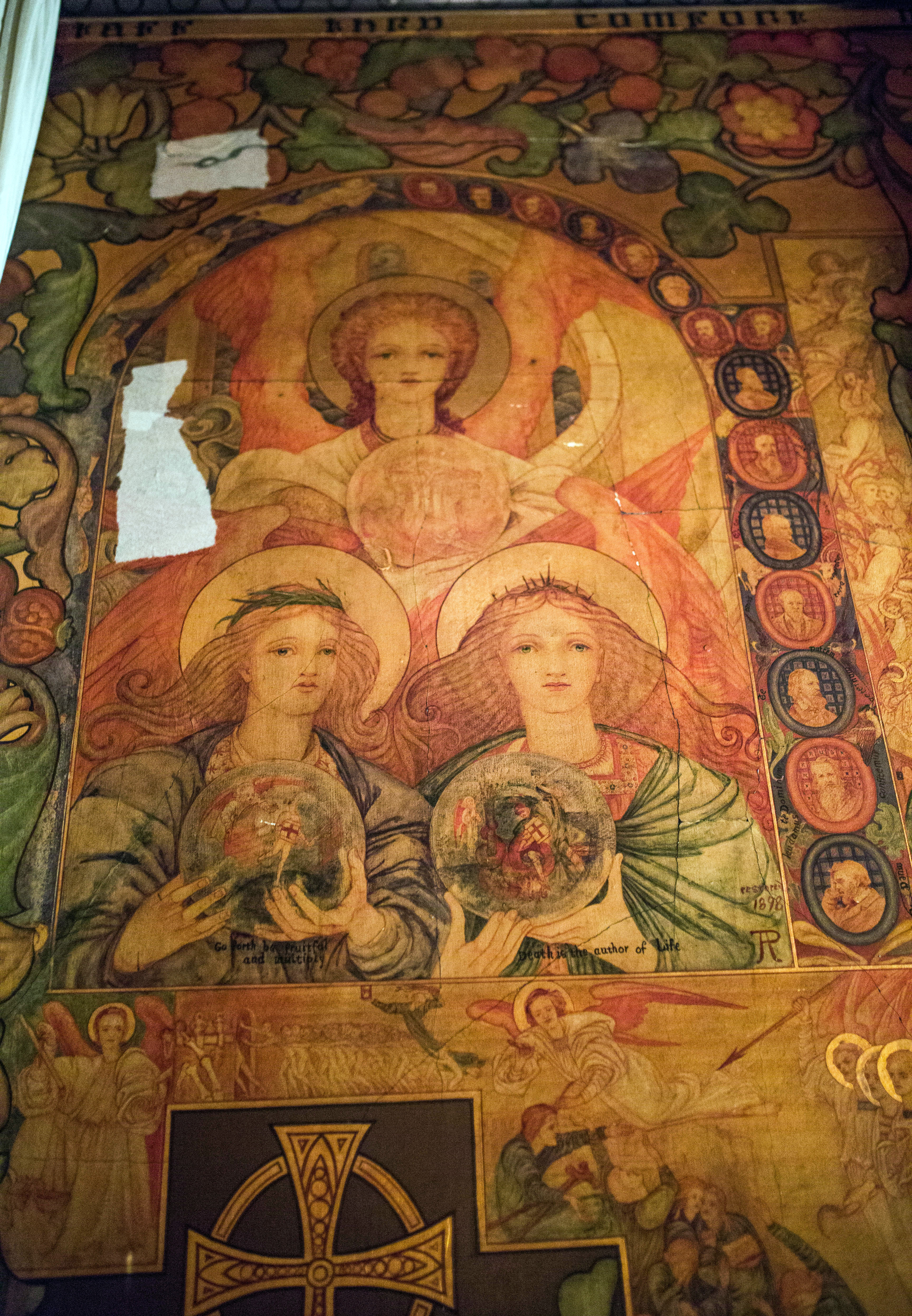 Mural paintings by Phoebe Anna Traquair in the Mortuary Chapel of the Royal Hospital for Sick Children in Sciennes, Edinburgh.